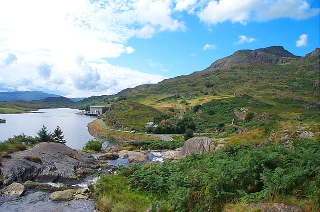 Tan-y-Grisiau Reservoir and Power Station. This was the first major pumped storage/hydro electric power station in the UK.